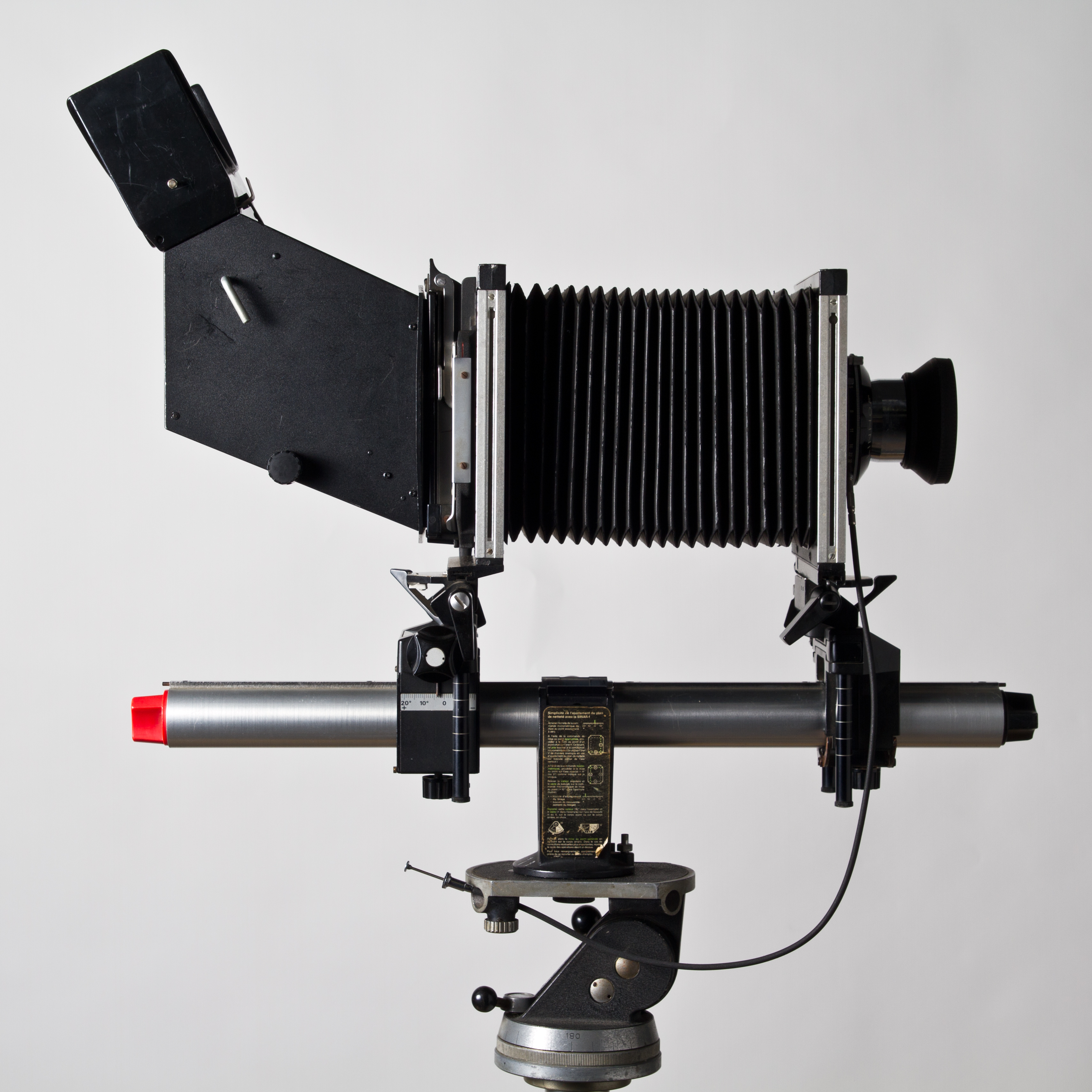 A Sinar F large format (4x5) camera. It is equipped with a Schneider Tele-Arton f:5.5 240mm lens, with Compur shutter, mounted on a Linhof Technika plate, as well as a Sinar binocular (focusing device).